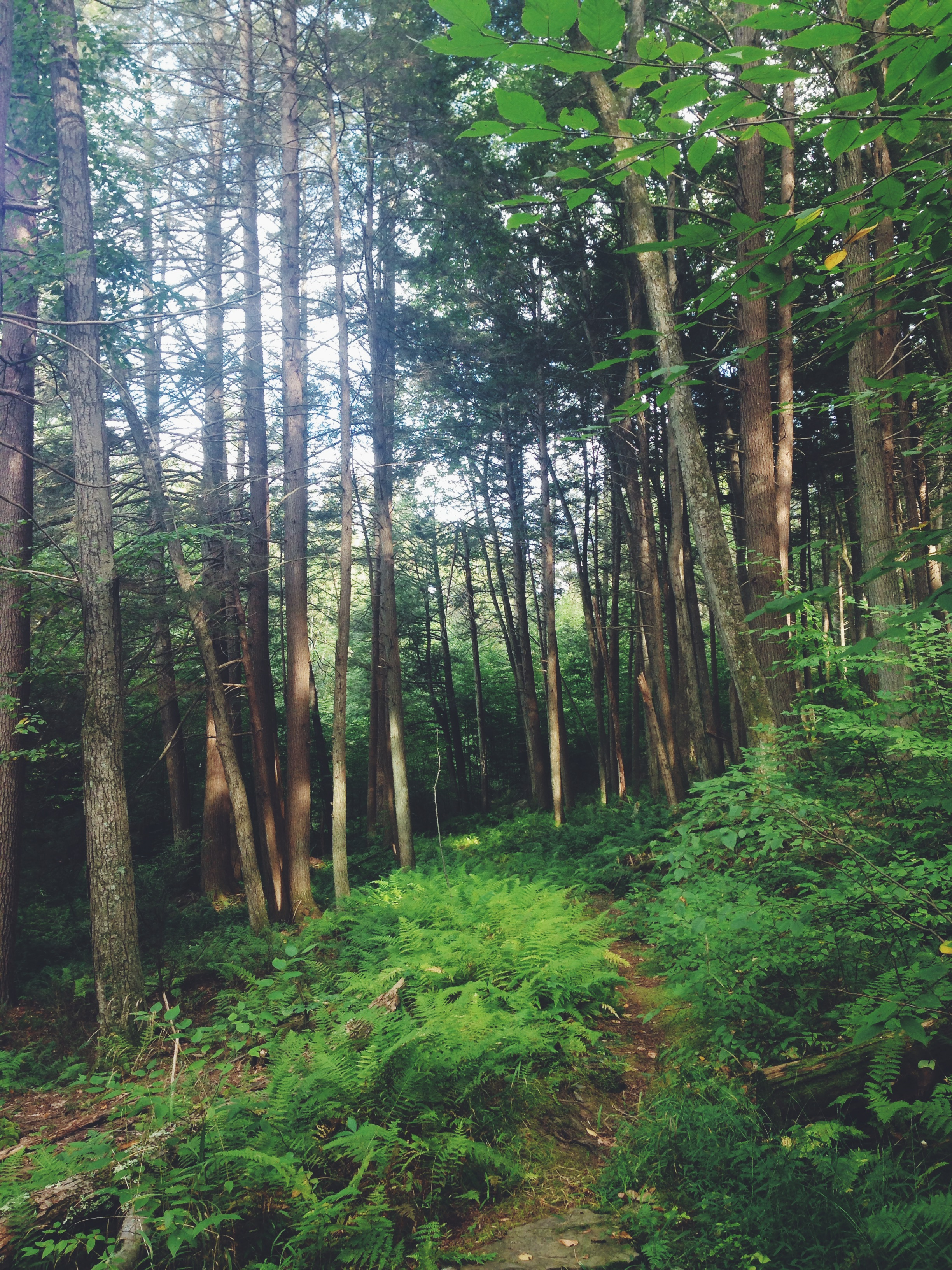 Moon Lake Park in Plymouth Township, Pennsylvania.